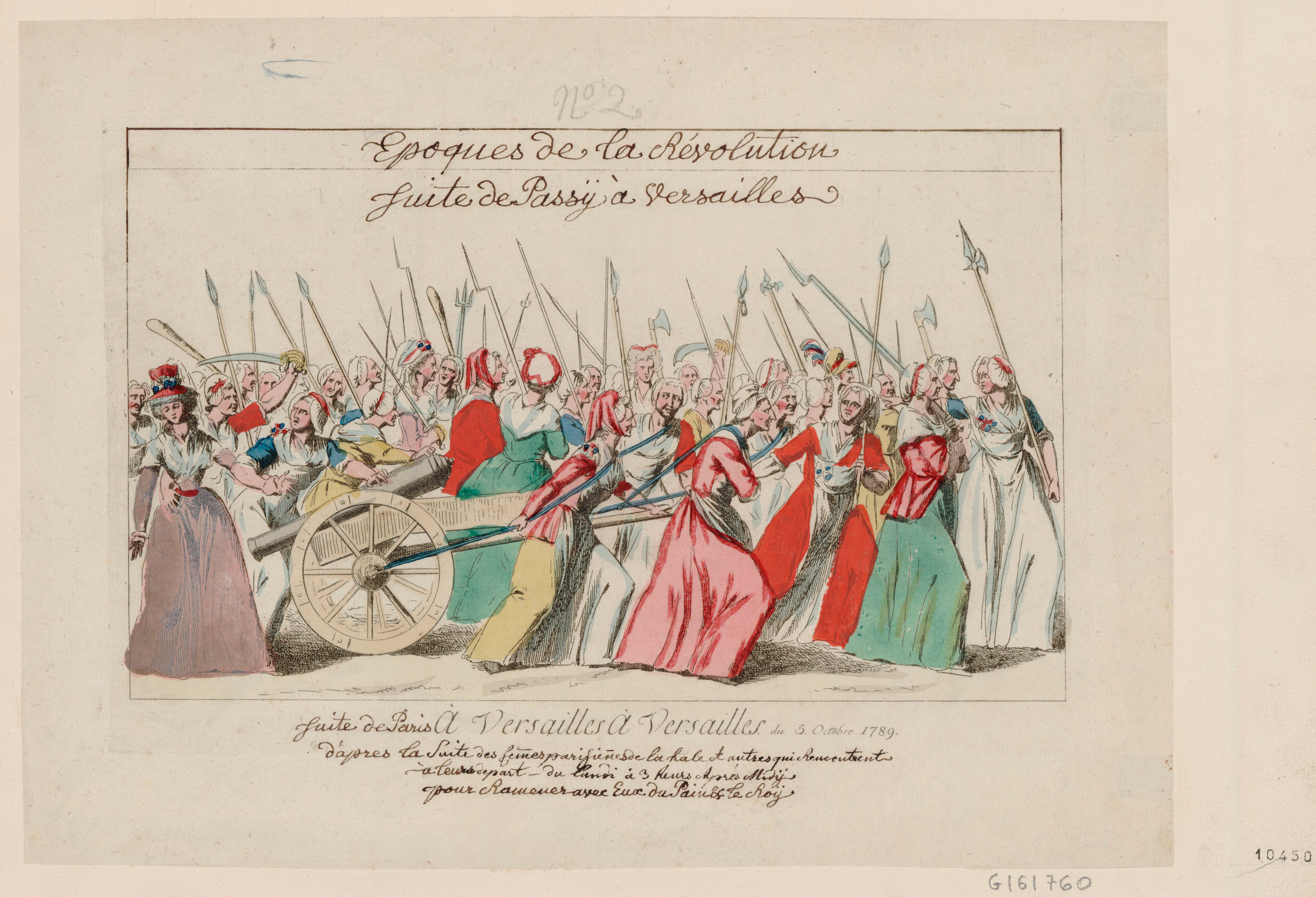 A contemporary illustration of the Women's March on Versailles.